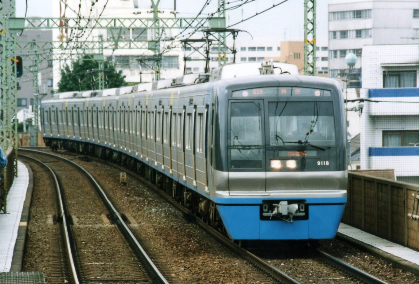 Chiba New Town Railway 9100 series "C-Flyer" EMU set 9111 at Shimbamba Station on the Keikyu Main Line